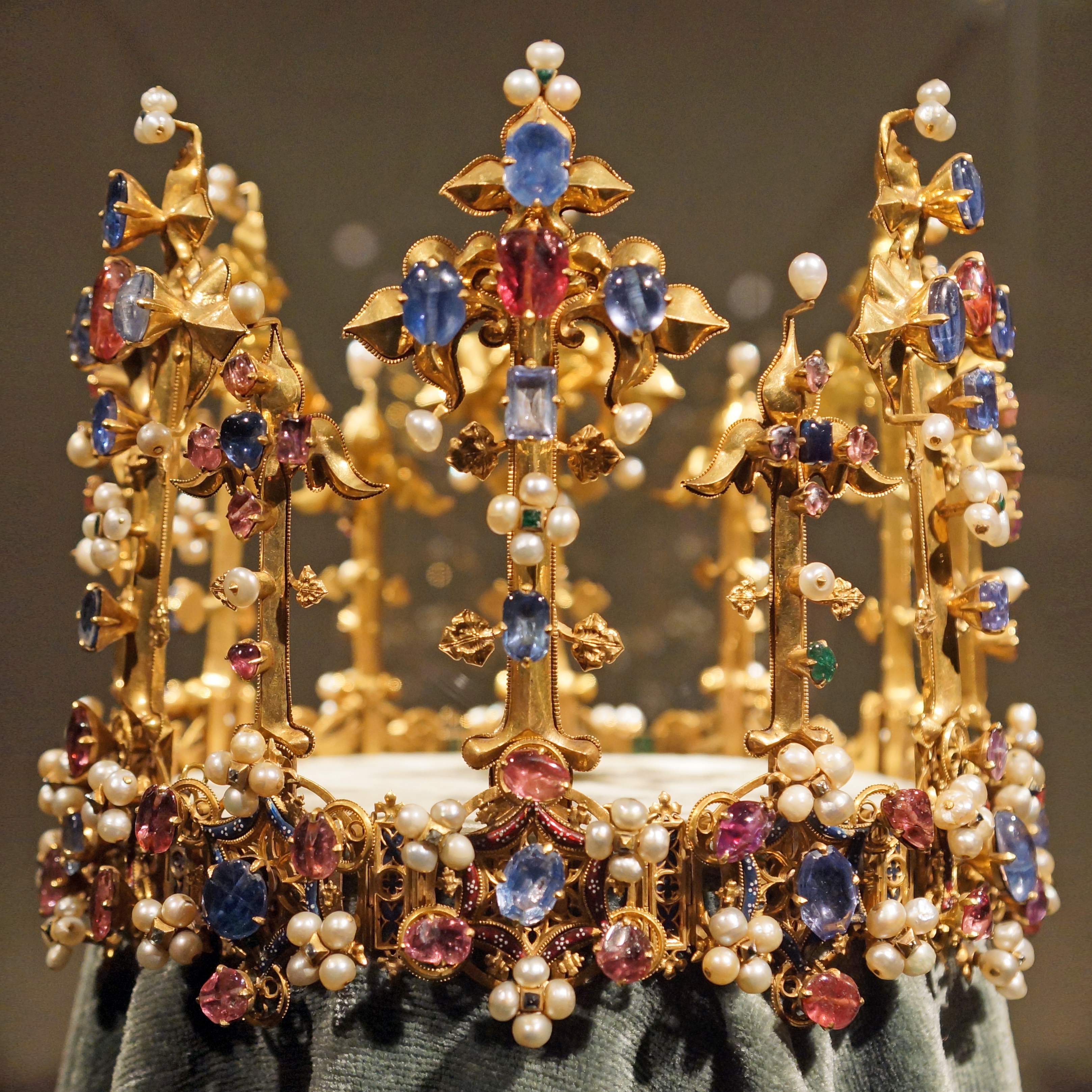 Crown of Princess Blanche at the Munich Residence.